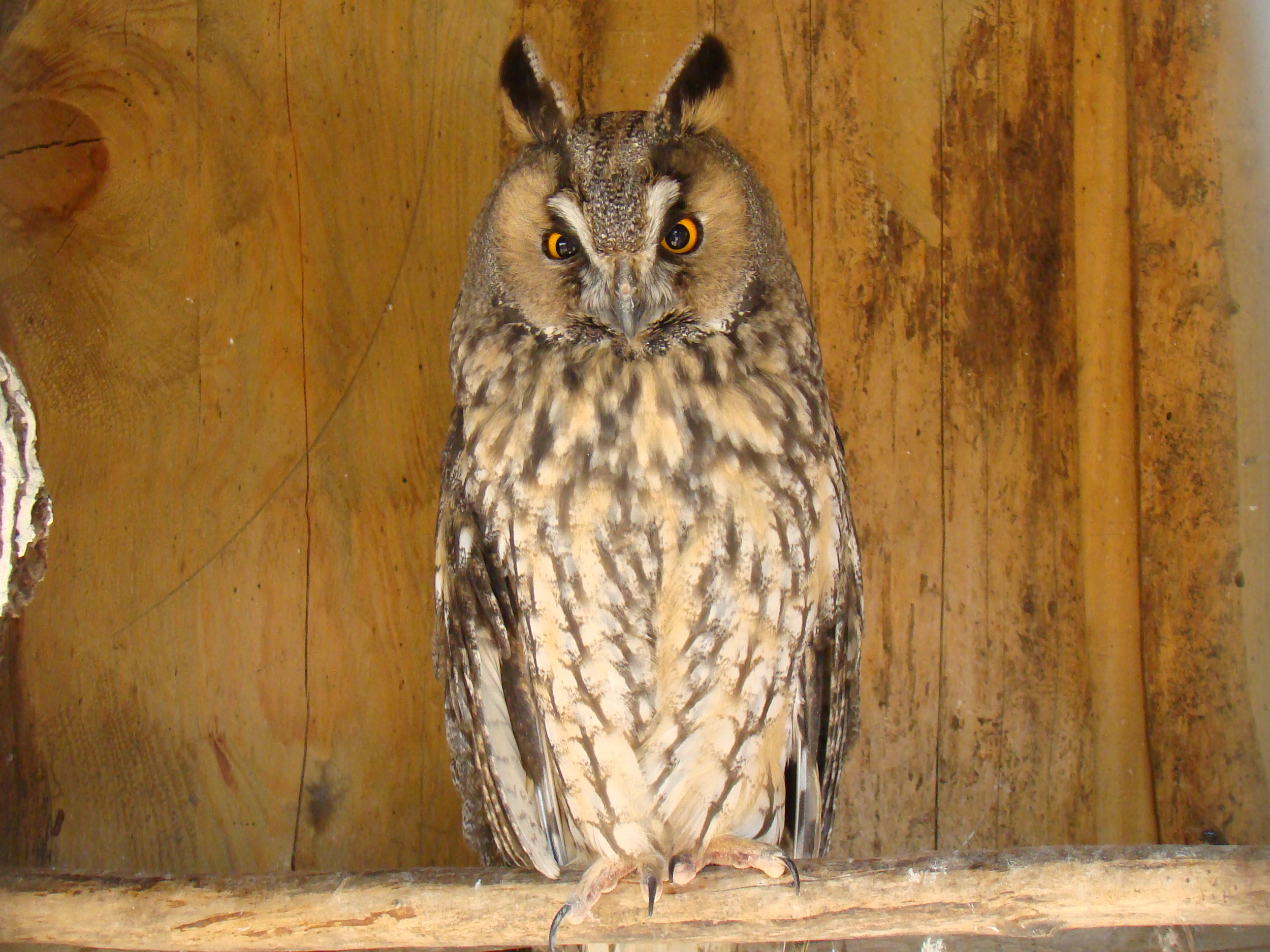 Photo of the Long-eared Owl (Asio otus) in Kretinga, Zibininkai, Lithuania.